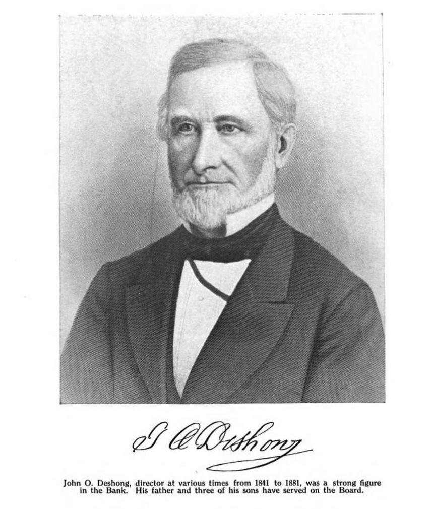 Image of John O. Deshong from Henry Graham Ashmead's "History of the Delaware County National Bank", 1914